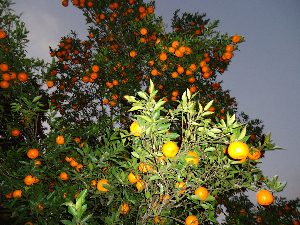 Nepal